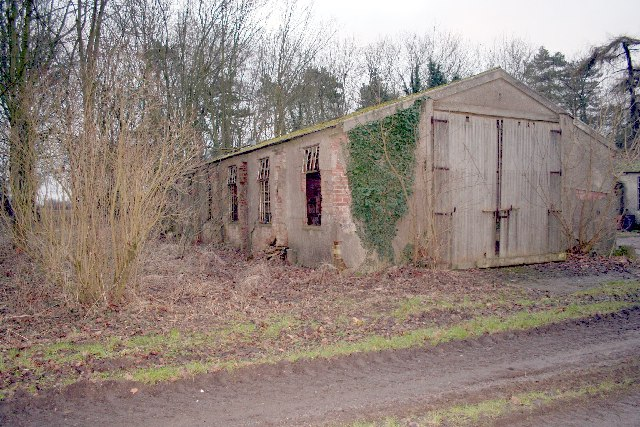 Technical Site for RAF Wellingore. A Couple of buildings remain here including a power house, two large Maycrete type workshops and a blast shelter together with around 4 building bases.